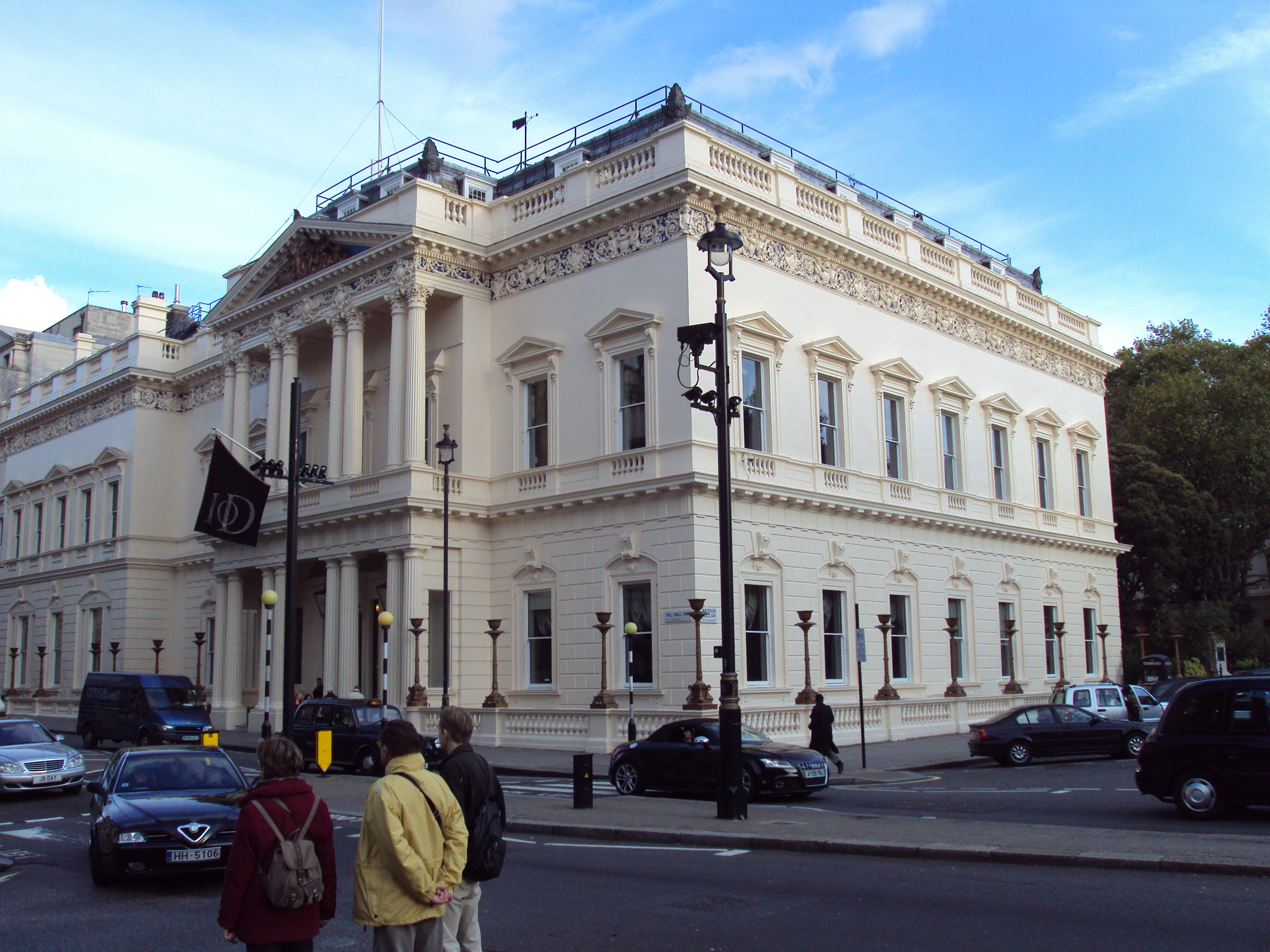 Institute of Directors building on the corner of Waterloo Place and Pall Mall, London.